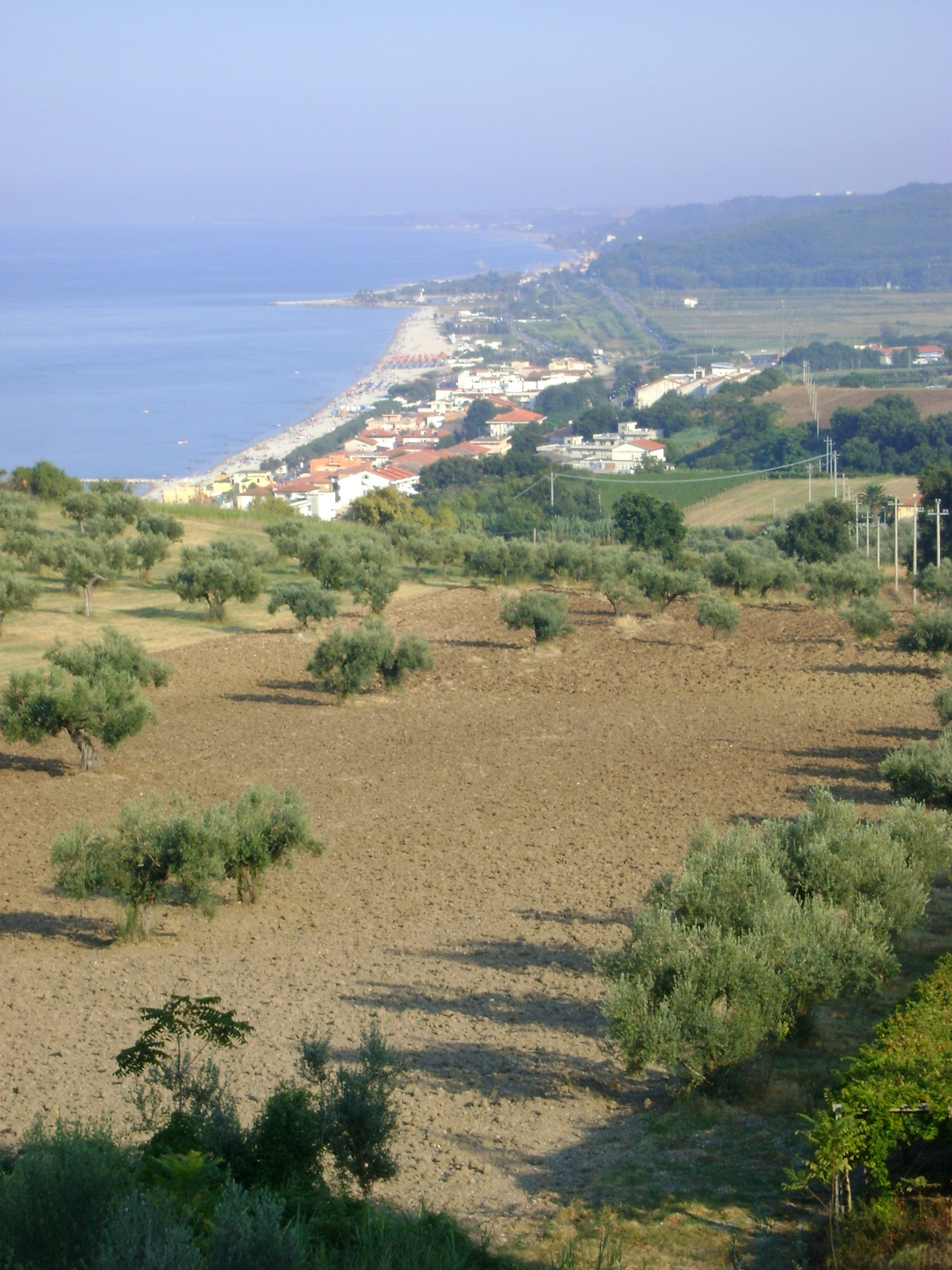 View of Fossacesia Marina from the abbey of San Giovanni in Venere